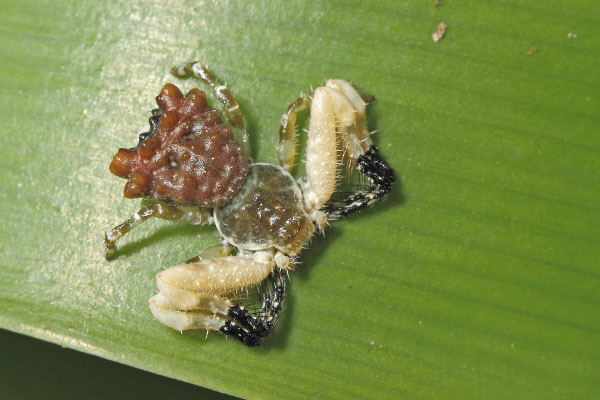 Crab Spider mimicking bird-dropping, Kabini.